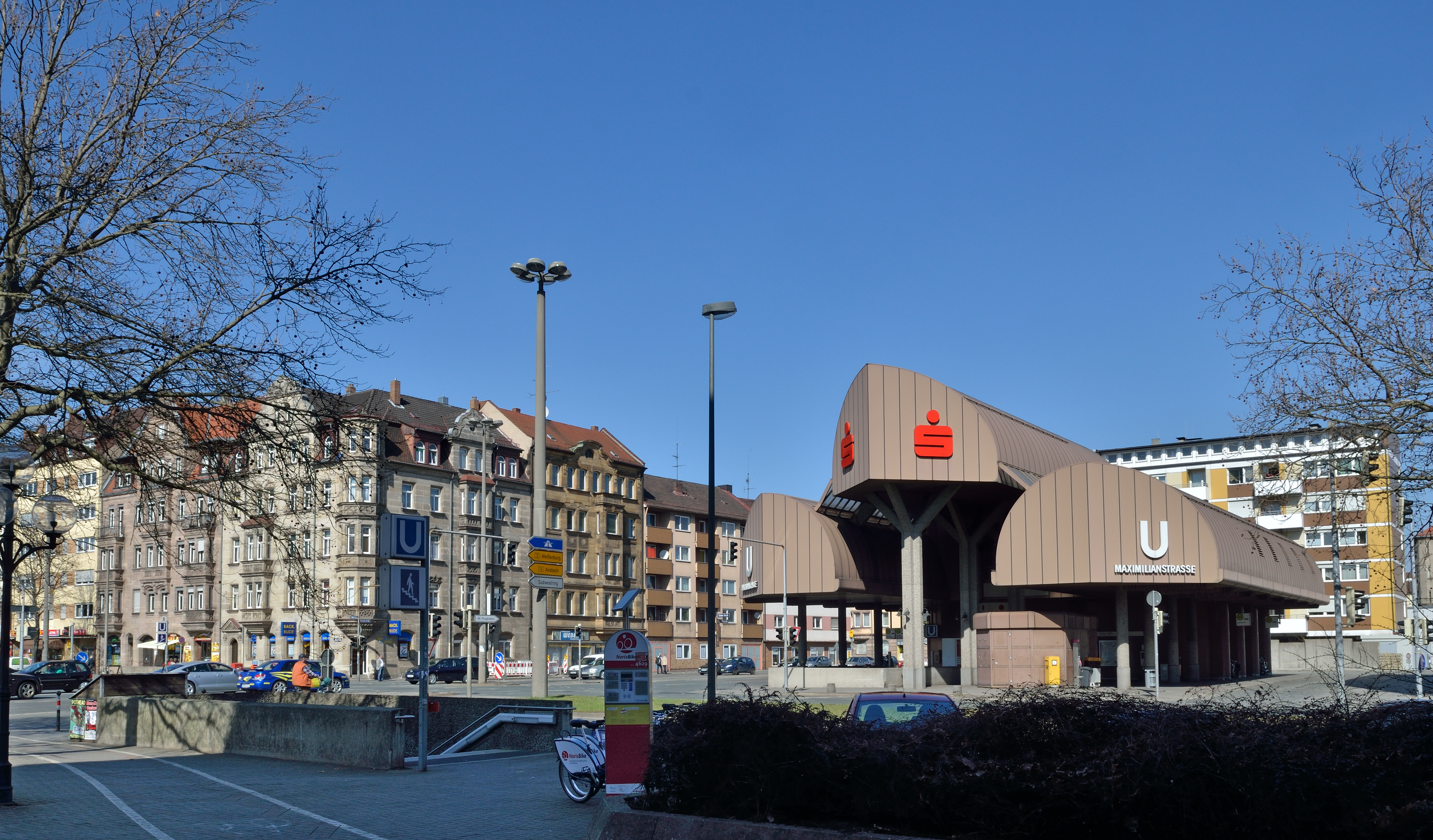 the subway station "Maximilianstraße" in Nuremberg